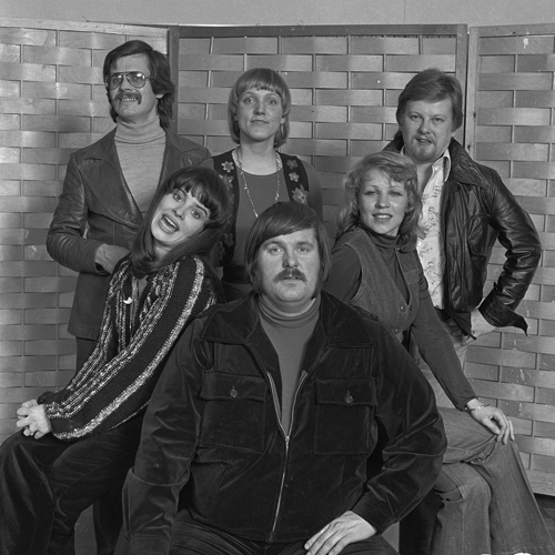 Portrait of Fredi & Ystävät at the day of the Eurovision Song Contest 1976